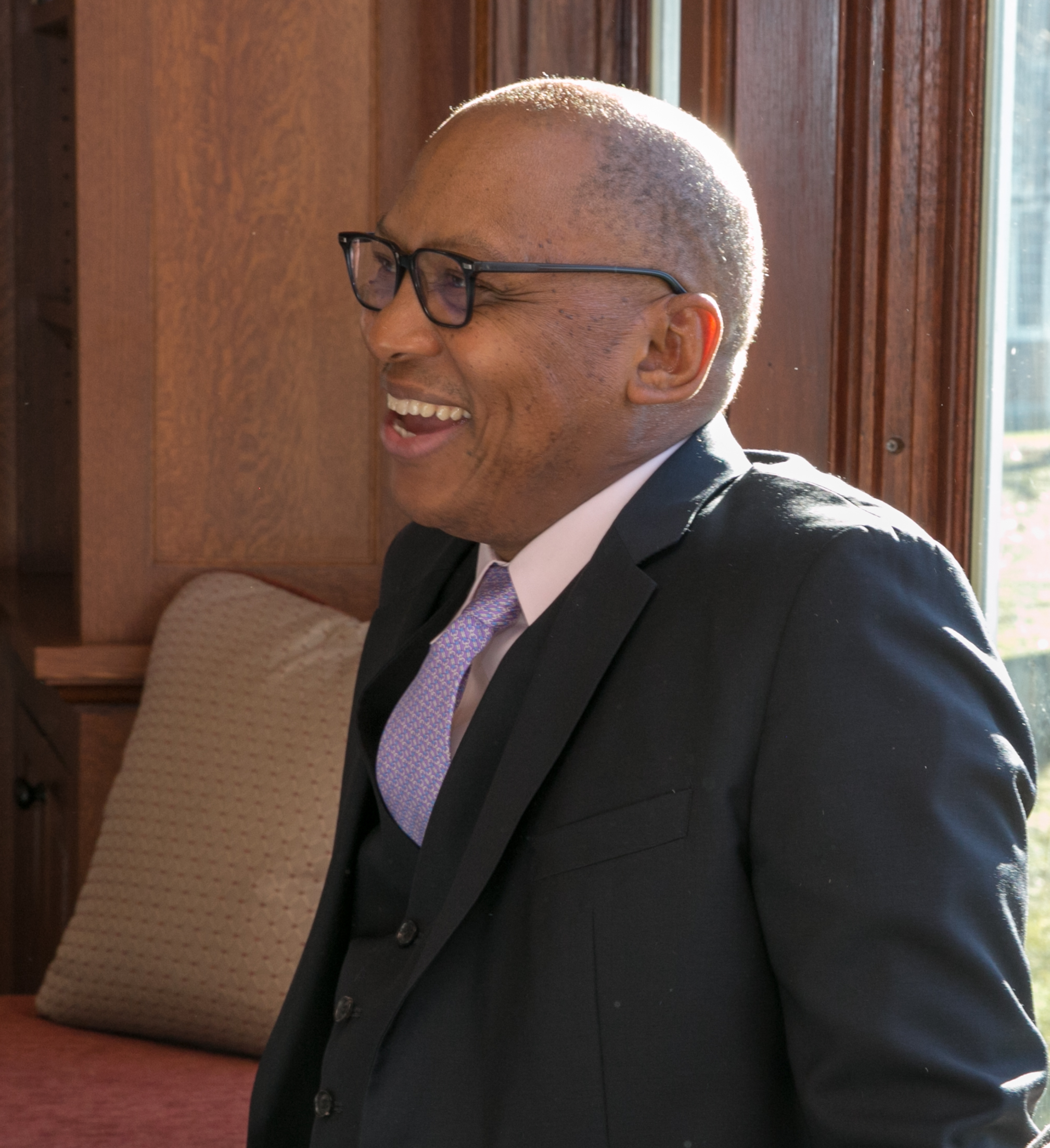 Temba Maqubela, Groton School Hundred House